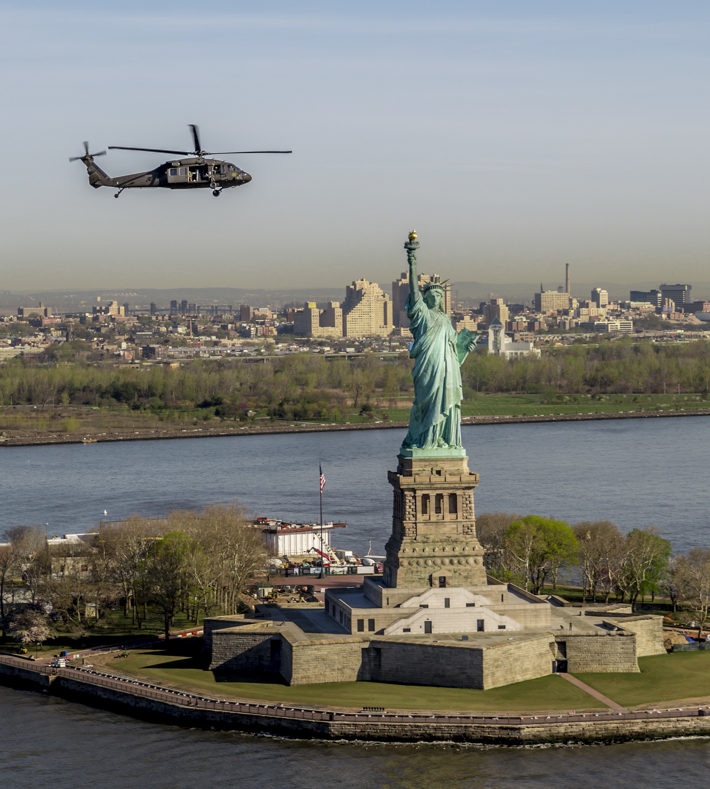 New York National Guard Soldiers and Airmen of the 24th Weapons of Mass Destruction Civil Support Team (CST) fly on a UH-60 Black Hawk operated by 3rd Battalion, 142nd Assault Helicopter Battalion, 42nd Combat Aviation Brigade, during a collective training event at the Plum Island Animal Disease Research Facility, New York, May 2, 2018. The CST insterted by helicopter and was responsible for establishing communications and mission command for the event, which brought together the resources of several fire departments, the 106th Air Rescue Wing, and the Department of Homeland Security to respond to a simulated containment breach at the research facility. (U.S. Army National Guard photo by Sgt. Harley Jelis)